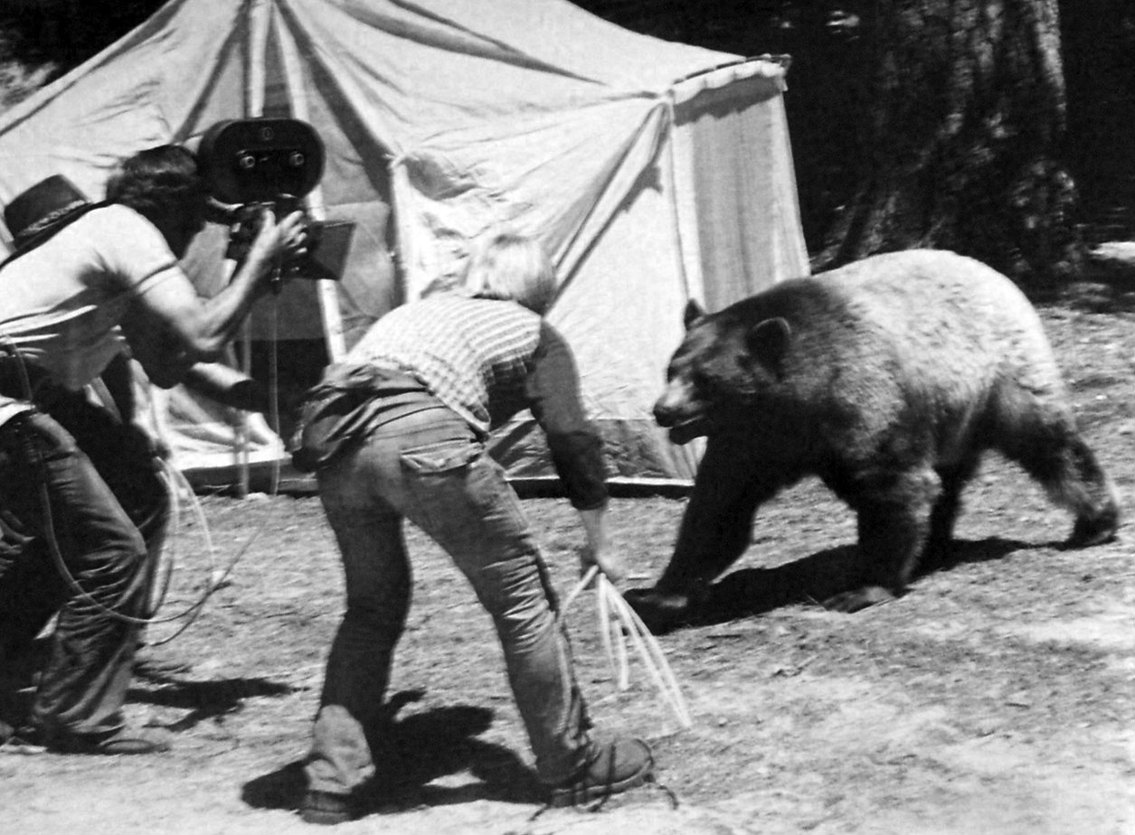 Behind the scenes photo of how Cruncher the bear was filmed for the short-lived television program Sierra. Cruncher was a regular on the program.